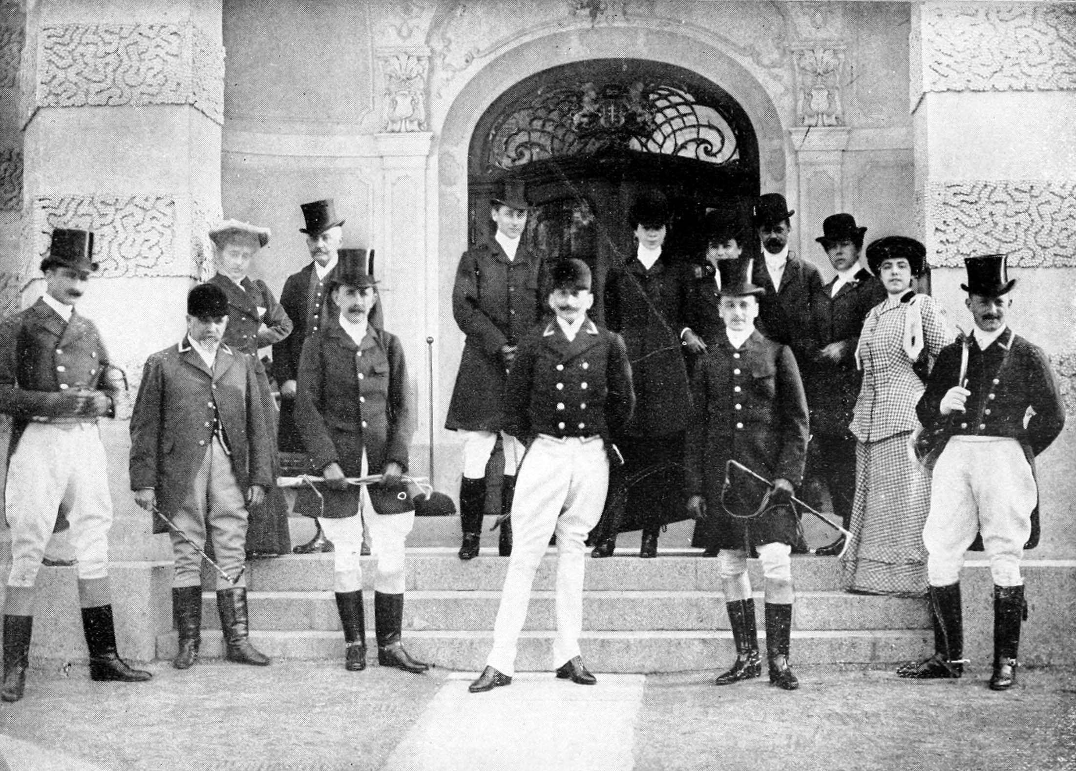 Hunting party at Antoniny in Volhynia. The group includes Count and Countess Joseph Potocki, the Austrian ambassador to Russia and Countess d'Aerenthal, Countess Gizycka, Countess Roman Potocka, the two Counts Prezezariecki, Countess Paul Zapory, Mme Regis de Oliverira, Count László Széchényi, and George von Lengerke Meyer, United States ambassador to Russia